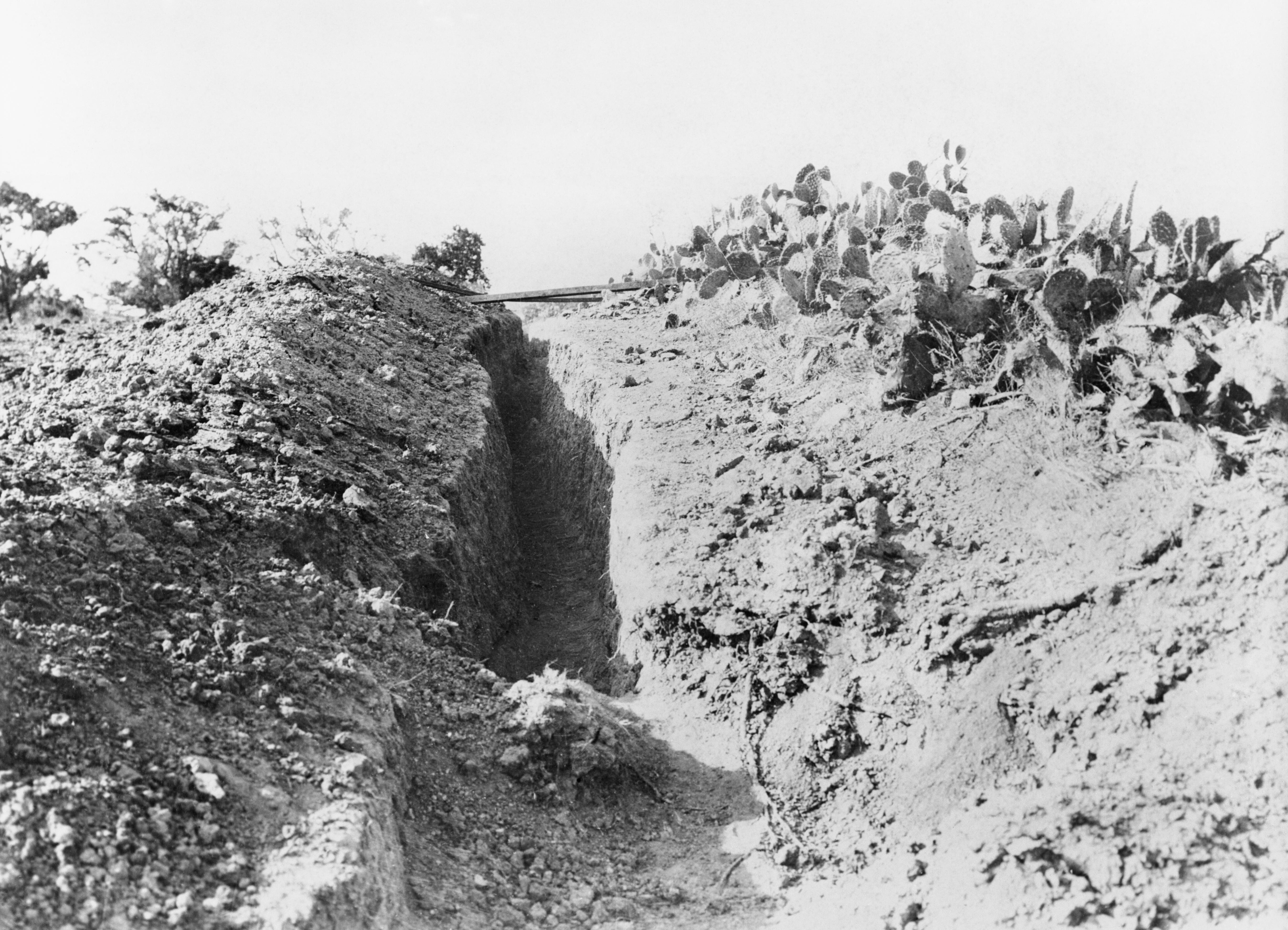 IWM caption : Third Battle of Gaza. Turkish trenches in El Arish Redoubt, Captured by the 4th Royal Scots, supported by two Companies of the 8th Cameronians, 52nd Division, 2nd November 1917.